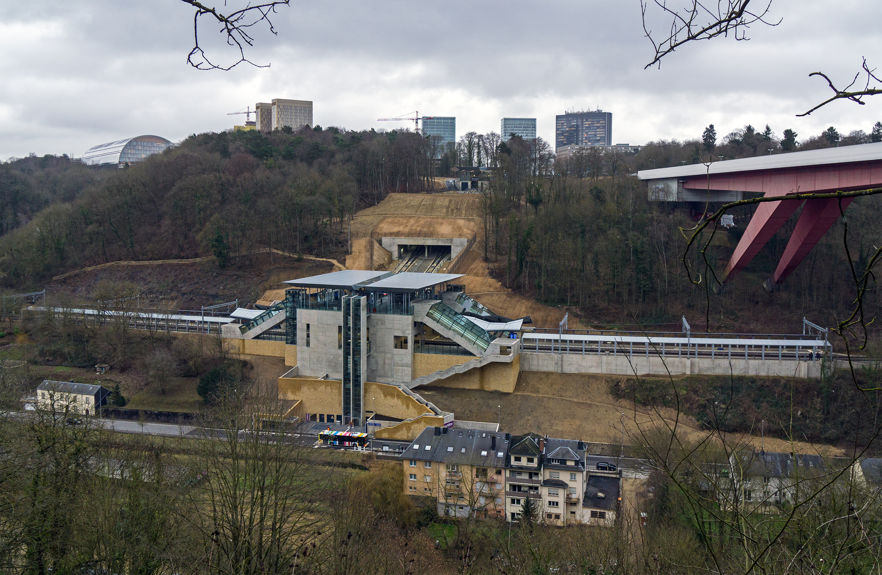 Centre: Kirchberg-Pfaffenthal railway station and the accompanying funicular line is in the foreground. Top right: The Grand Duchess Charlotte Bridge (also known as the red bridge). Top left: The European Investment Bank and golden towers of the Court of Justice of the European Union.